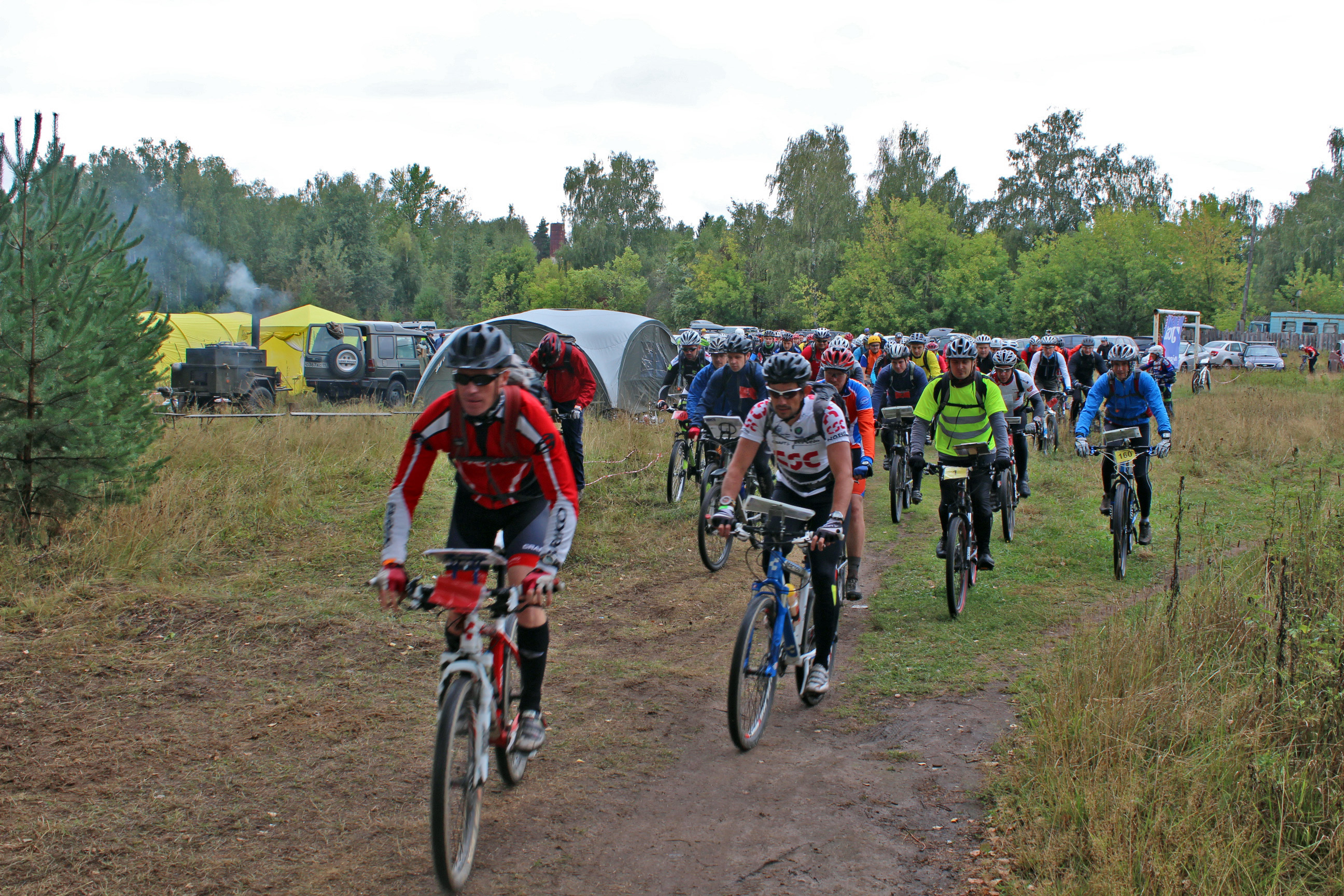 Start of bike rogaine on «Moscow rogaine – 2014». 30 August 2014, Moscow Oblast, Noginsky District.